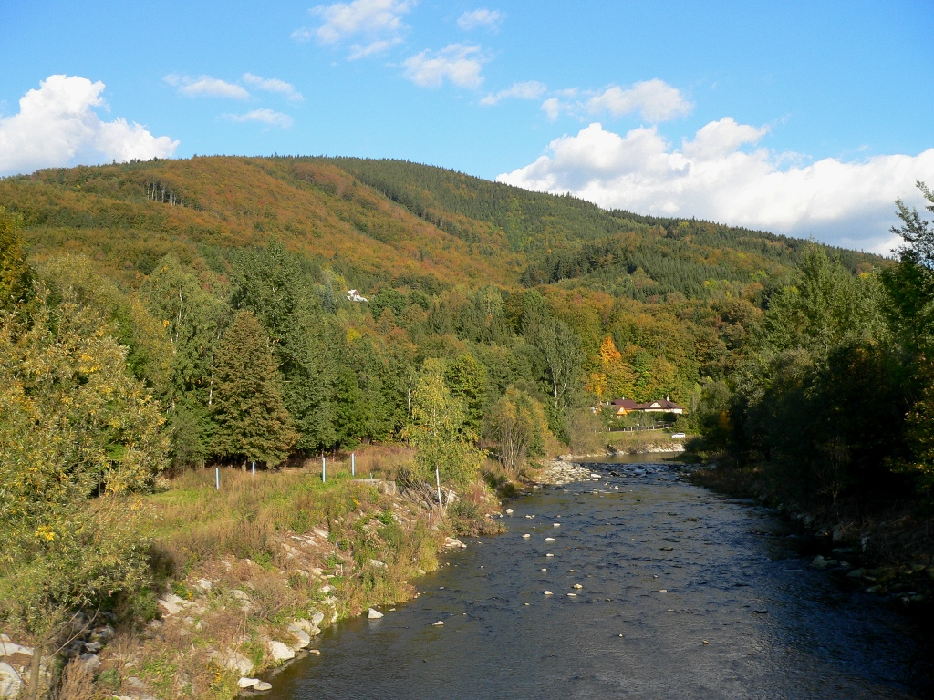 Morávka River near Raškovice, Czech Republic.